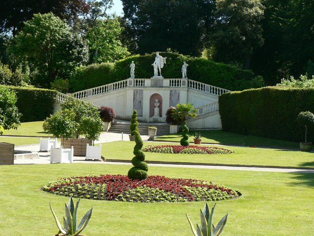 Orangery Garden at Mount Edgcumbe